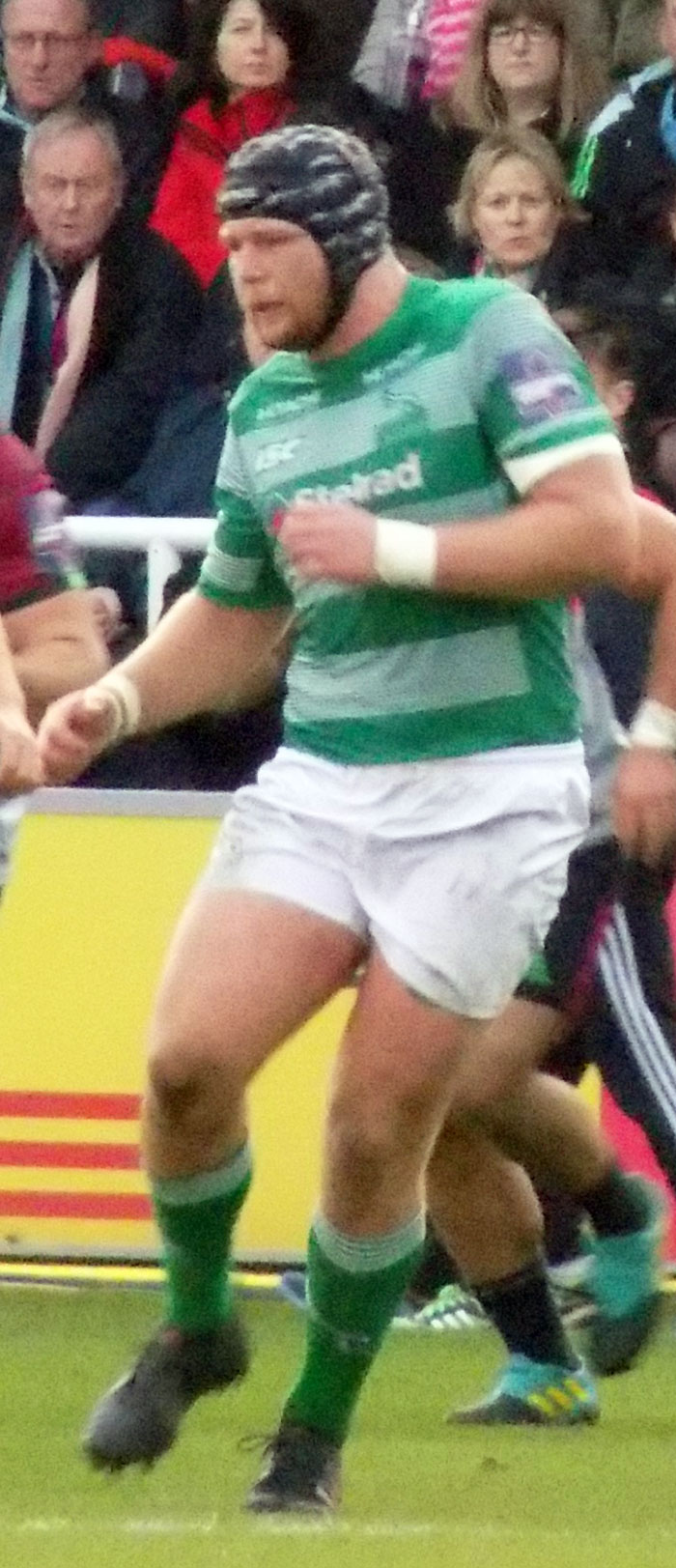 Playing for Newcastle November 2018.